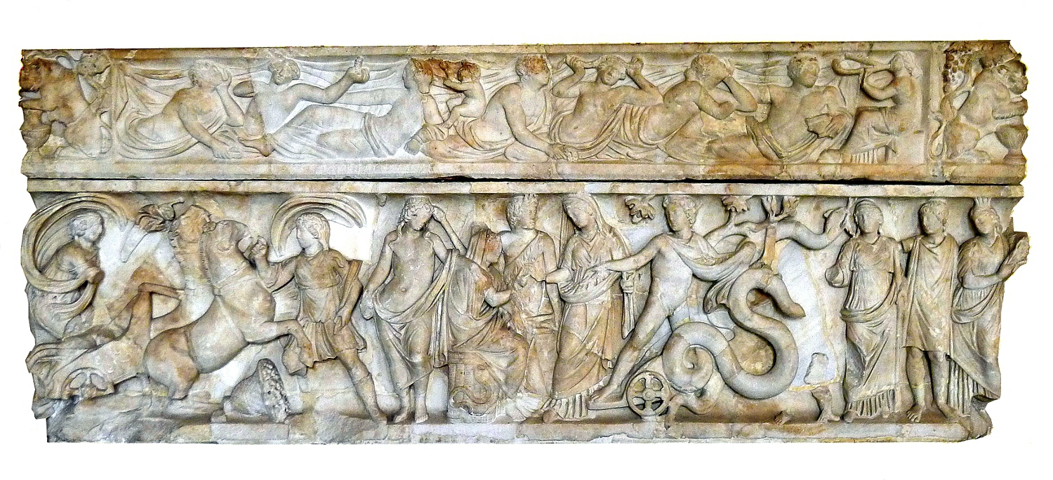 Triptolemus legend, panel of a Roman sarcophagus.